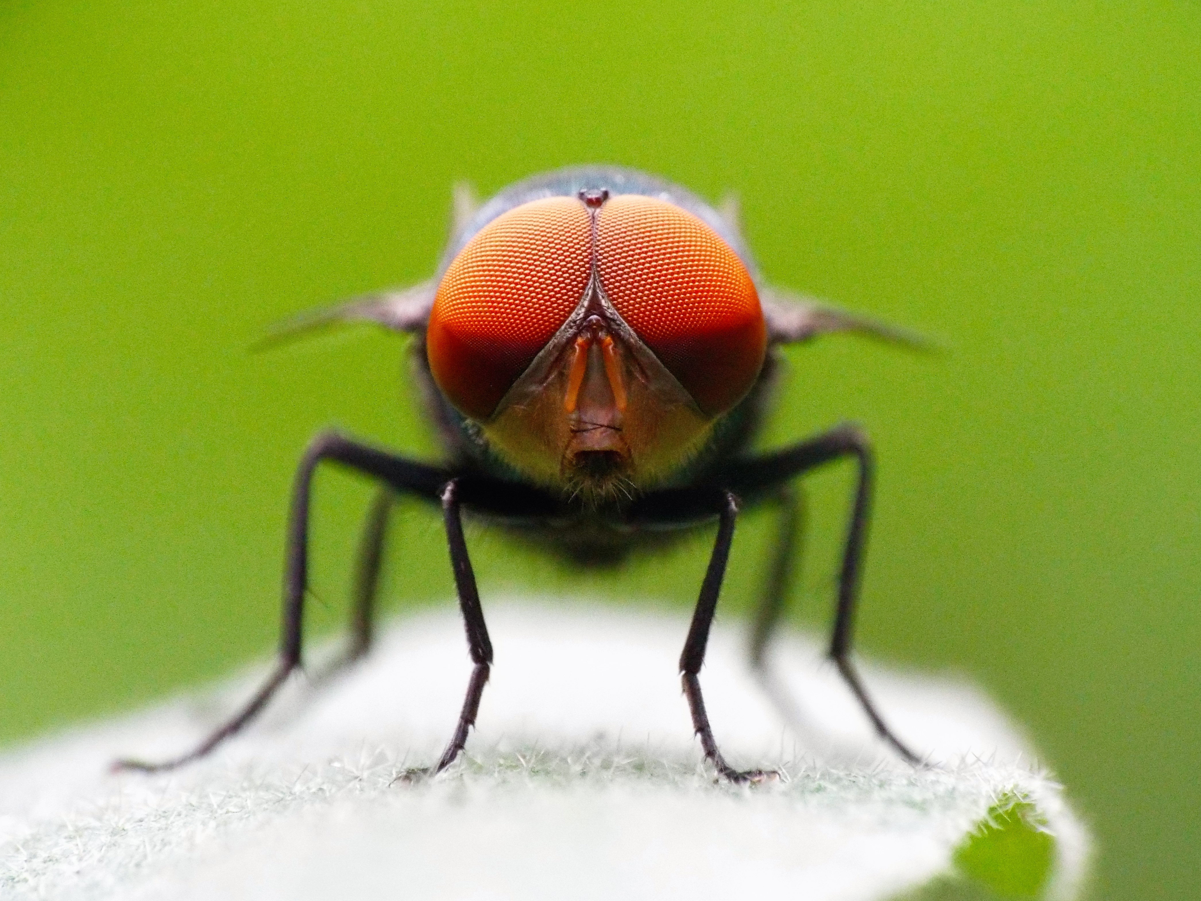 Blow Flies